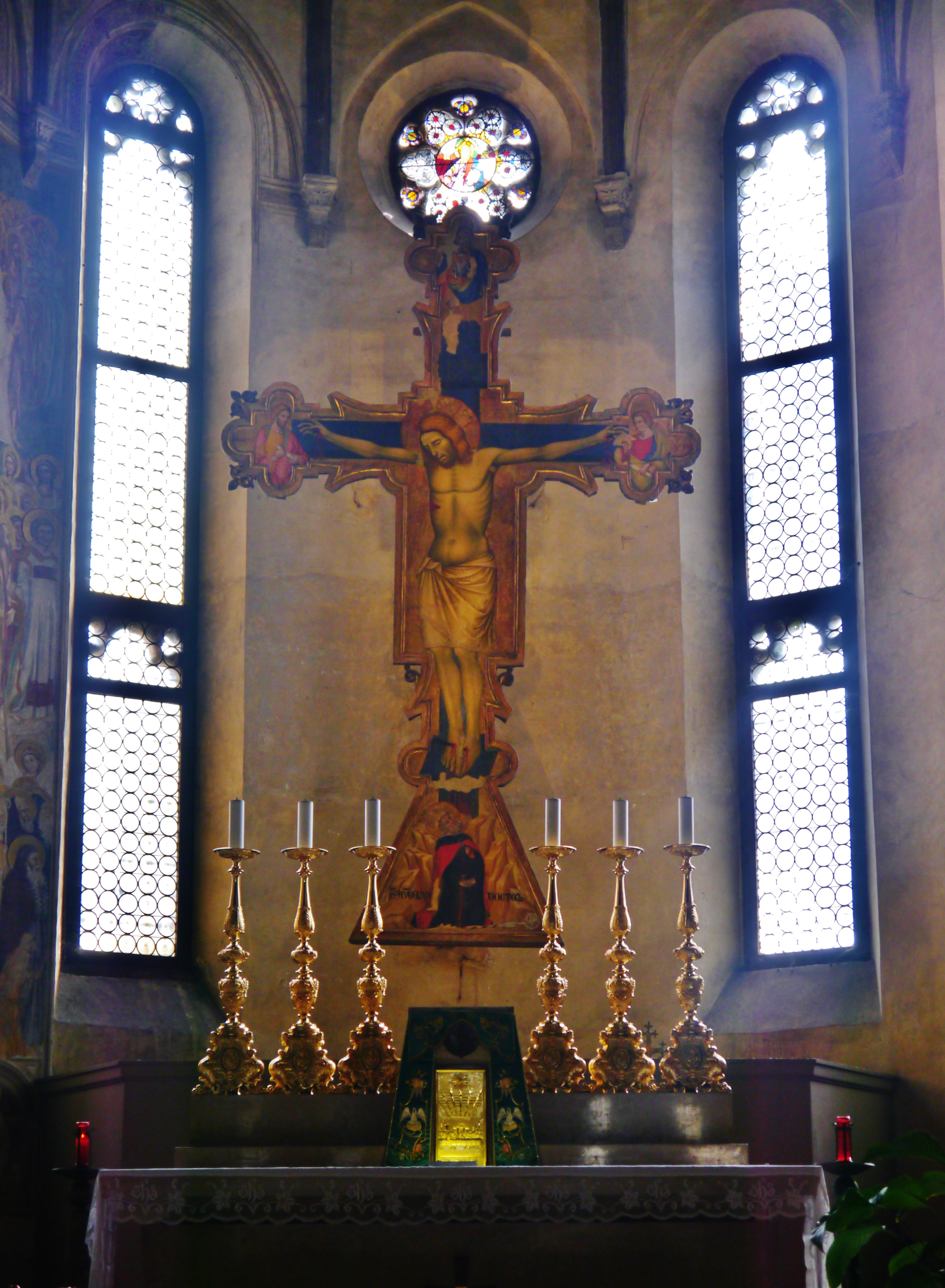 Choir of the Hermit Church, Padua, Province of Padua, Region of Veneto, Italy